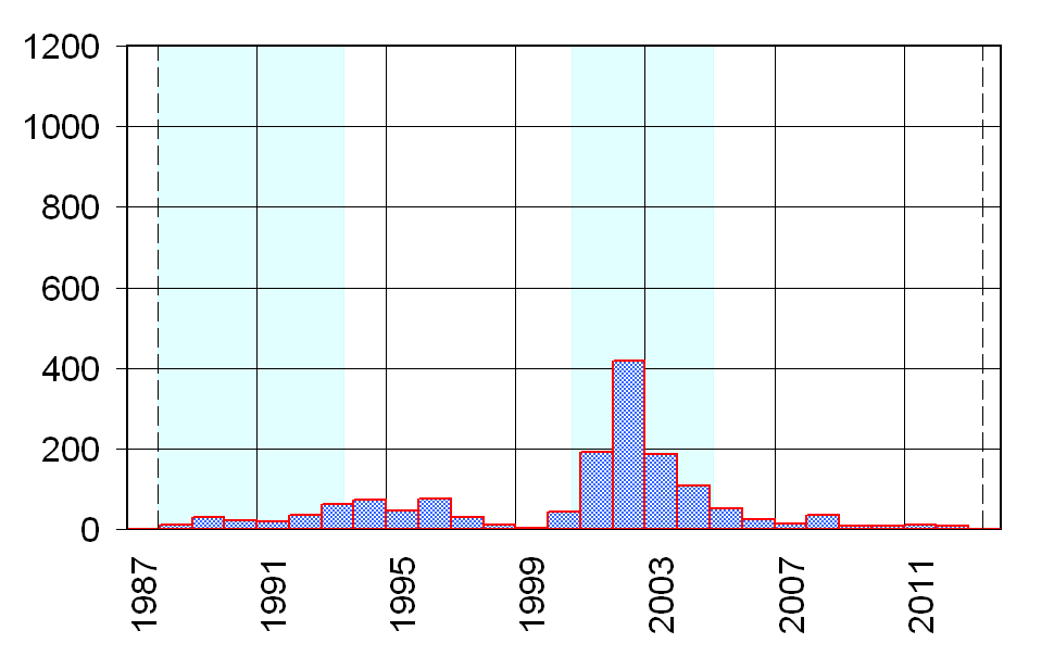 Israeli casualties per year from Dec. 9, 1987 to May 31, 2013. Source:B'Tselem Statistics. Blue areas: First and Second Intifadas